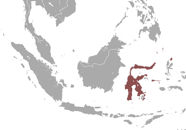 Swift Fruit Bat (Thoopterus nigrescens) range